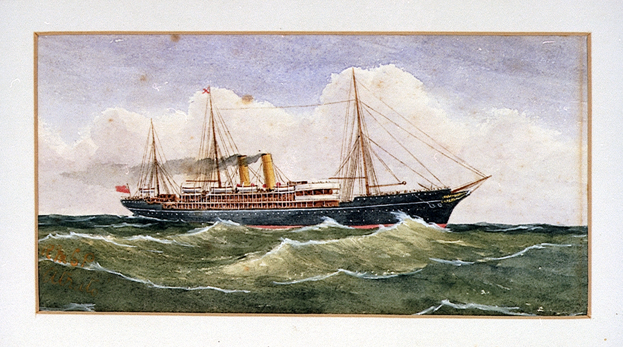 Royal Mail Atrato 1883-1912 RMS Atrato was a UK steamship that was built in 1888 (Launched: 22 September 1888) as a Royal Mail Ship and ocean liner for the Royal Mail Steam Packet Company. In 1912 she was sold and became the cruise ship The Viking. Toward the end of 1914 she was requisitioned and converted into the armed merchant cruiser HMS Viknor. She sank in 1915 with all hands, a total of 295 Royal Navy officers and men. original art: drawing